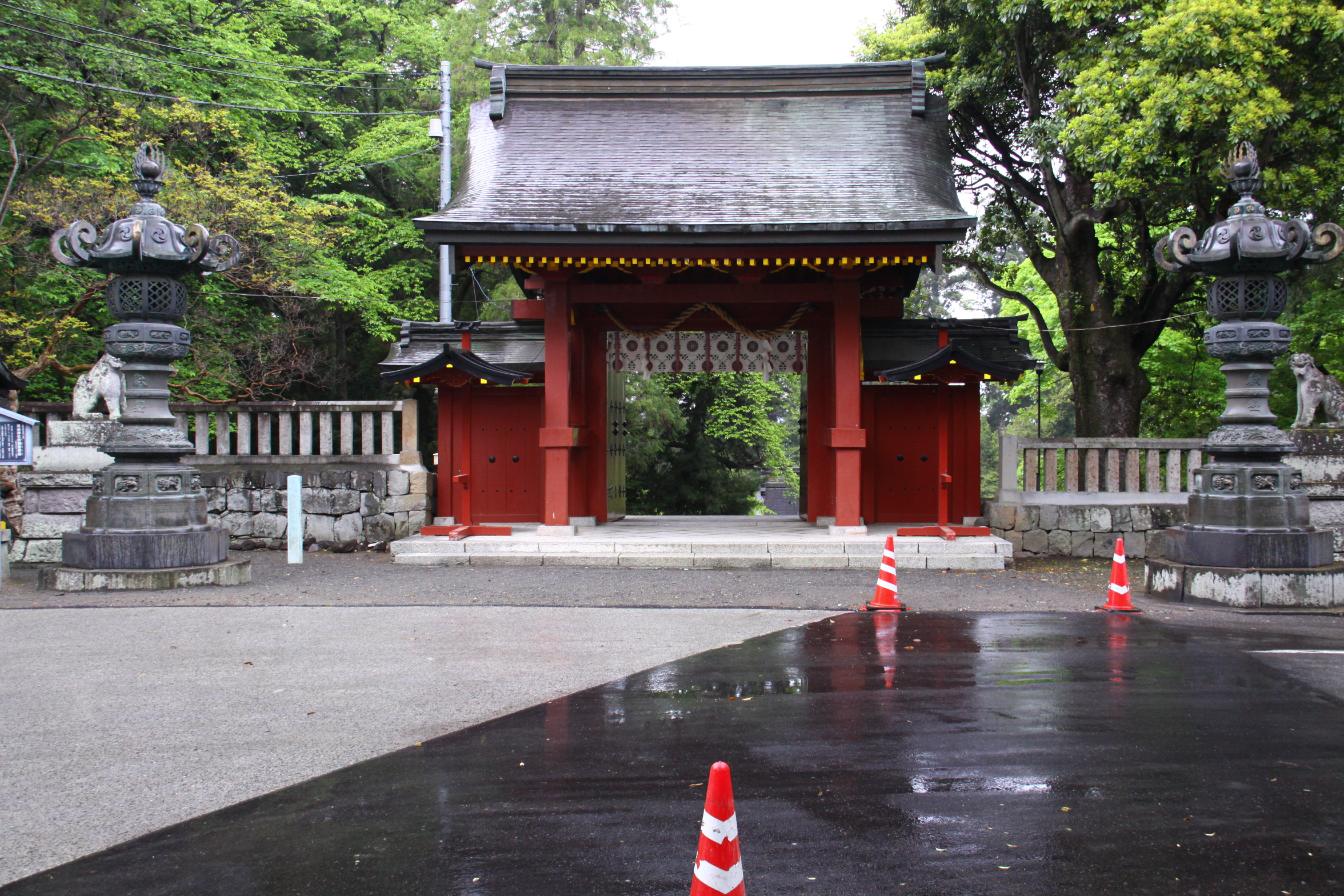 Ichinomiya nukisaki jinja Soumon